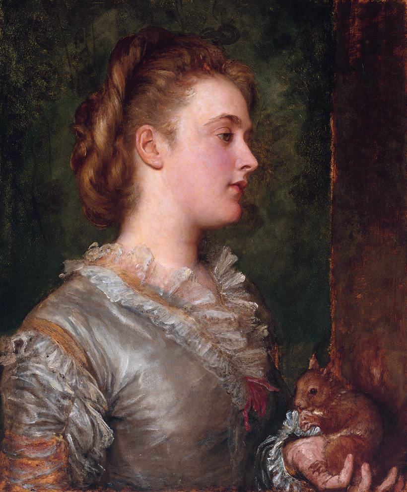 Portrait Dorothy Tennant, Later Lady Stanley by George Frederick Watts (1817-1904)